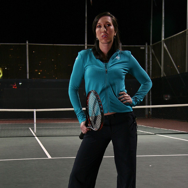 Jelena Jankovic